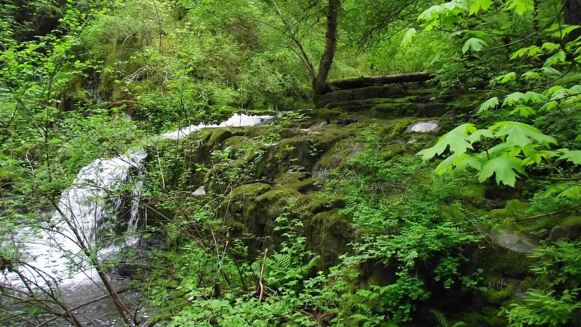 Triple Falls (Lower Falls)